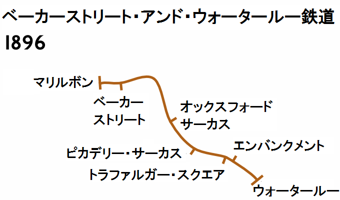 Geographic Map of the Baker Street & Waterloo Railway, 1896.